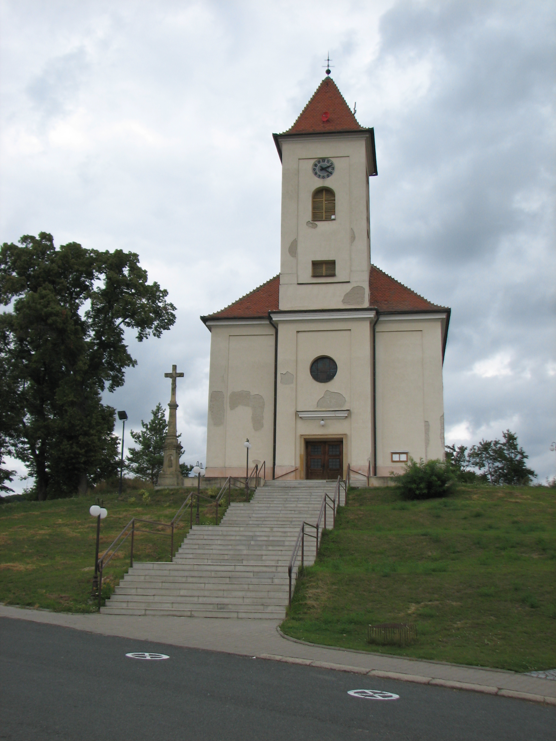 Lovčice - church of Saints Peter and Paul